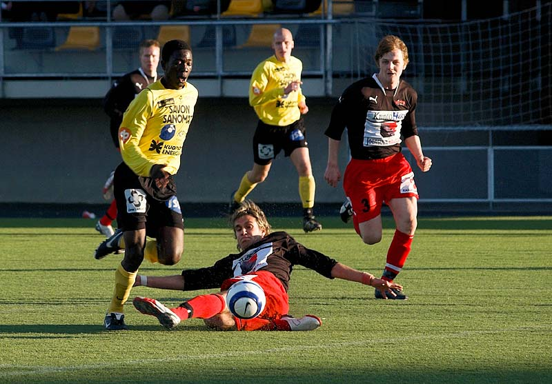 Nigerian winger Echiabi Okodugha of KuPS Kuopio escaping from a player of Jippo of Joensuu. 1st div. football, KuPS vs Jippo at Magnum Areena, Kuopio, Finland.